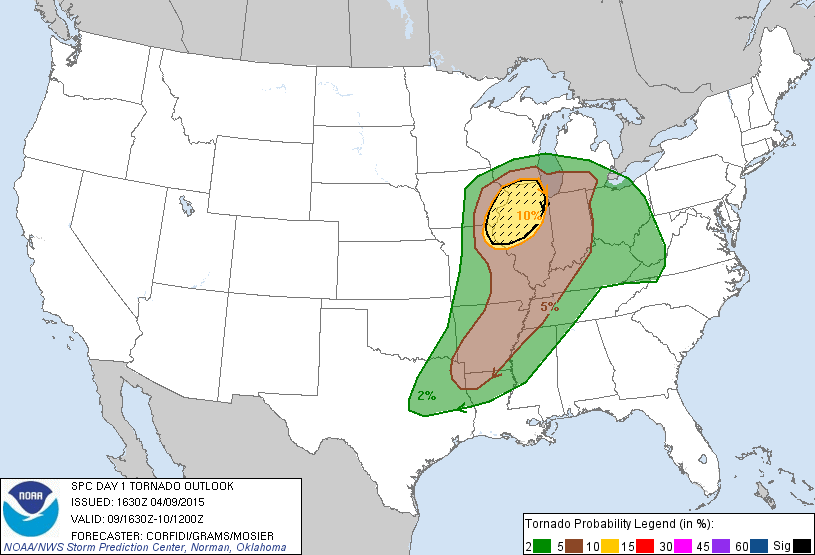 The Storm Prediction Center's 16:30 tornado outlook for April 9, 2015. The outlook features a 10% hatched chance for tornadoes across northern Illinois, noting the potential for a strong tornado or two (EF2+).